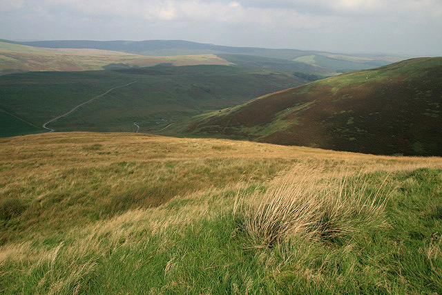 Hill farming countryside Rough grazing on Limie Hill with Limiecleuch Hill on the right.